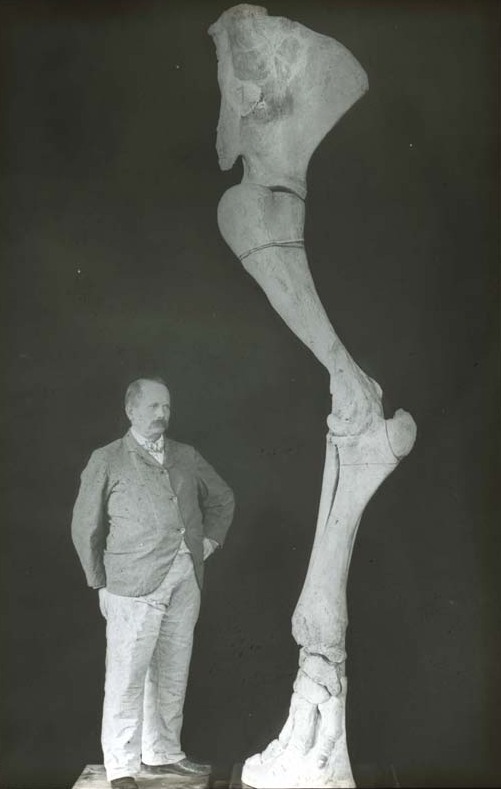 Local number: SIA2011-1426 Summary: RU 424 Box 7 Lantern Slide Box 18. Elephas imperator, Right foreleg, 1900-1935. Mammoths, mastadons, and other large mammals from the Late Cenozoic were collected in Idaho and on display at the Smithsonian Institution, 1900-1935. From lantern slides found in the Division of Vertebrate Paleontology Records. Repository: Smithsonian Institution Archives View more collections from the Smithsonian Institution.